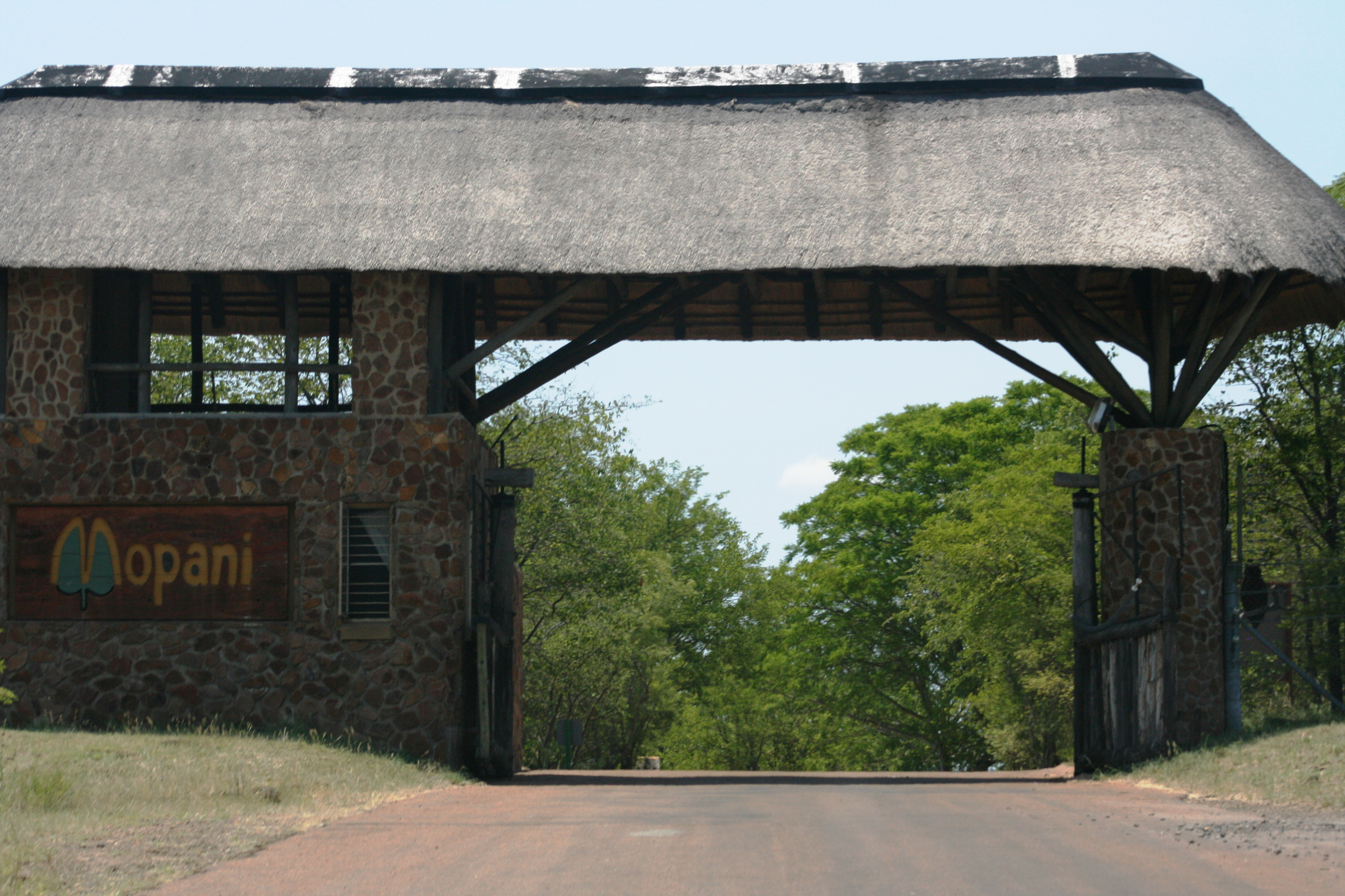 Kruger National Park, South Africa